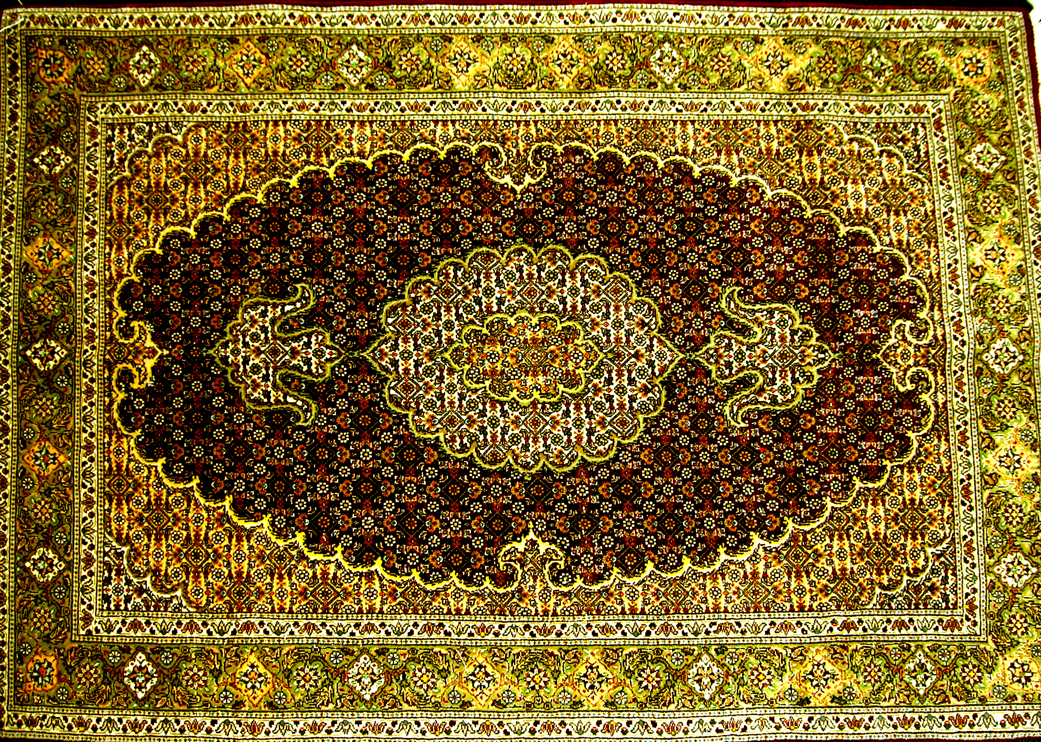 Rug from Tabriz, Iran. made of wool and silk. "fish design"